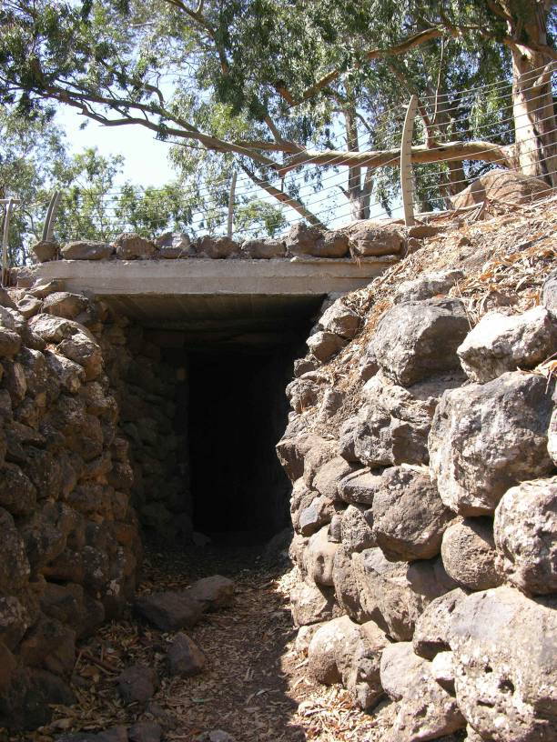 Tel Faher, trenches within the former Syrian outpost